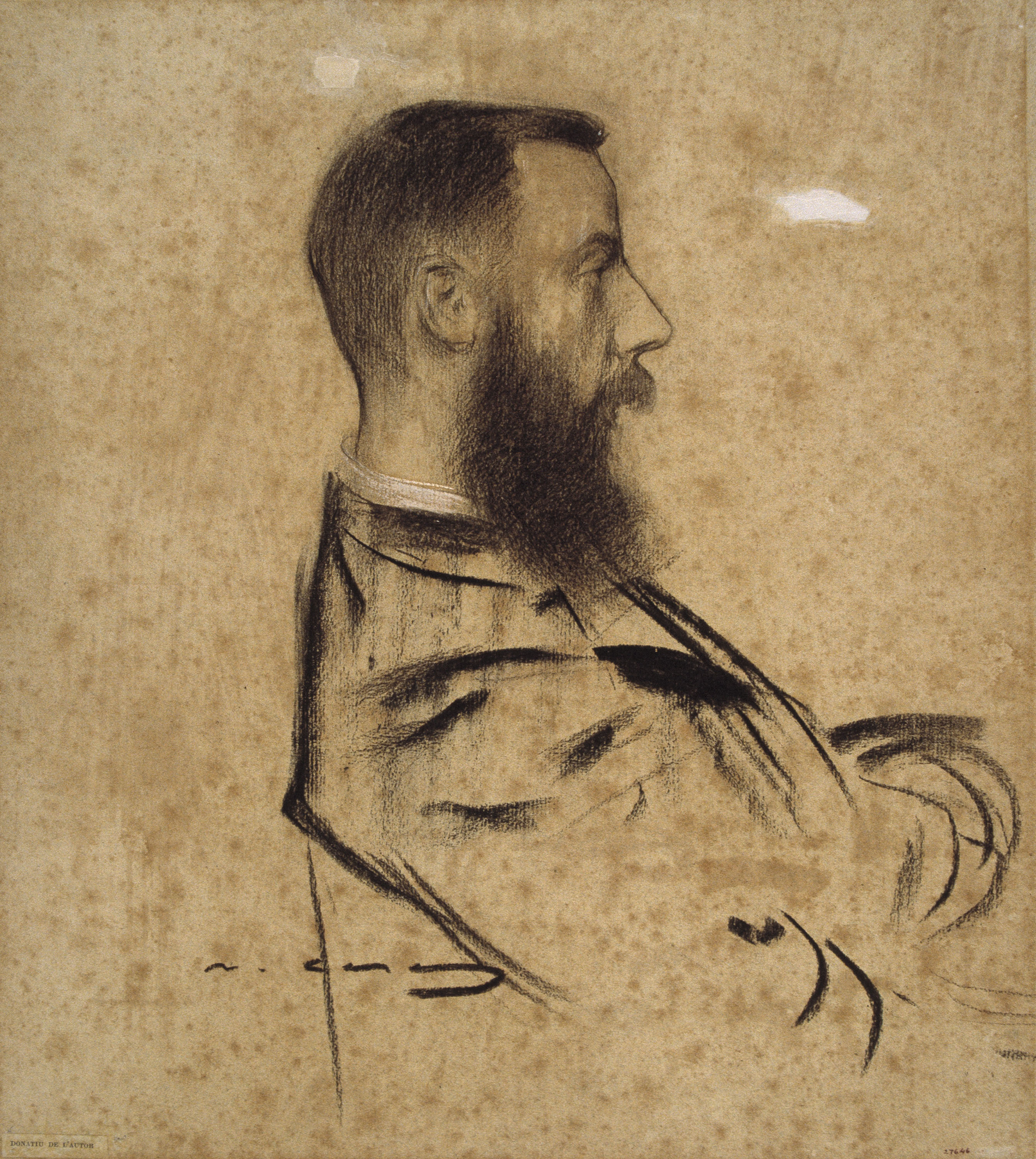 Portrait of Raymond Foulché-Delbosc (1864-1929), conserved at MNAC in Barcelona. Imagen 127